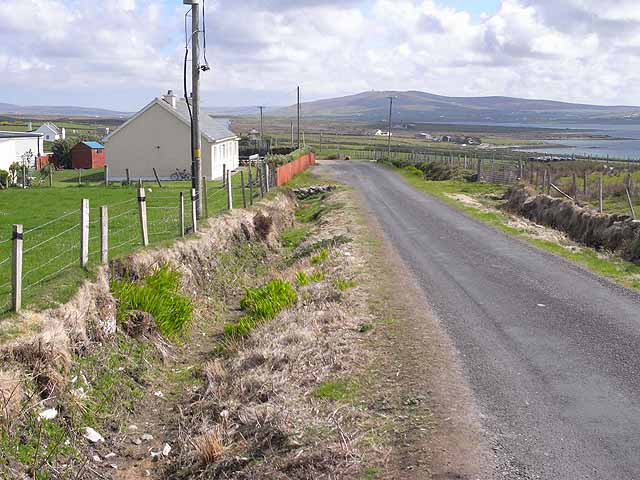 Country road at Shanaghy/Seanachaidh, near to Moyrahan, Knockshanbo and Knocknalina, Mayo, Ireland. The arm of the sea is the narrow southern end of Broad Haven which separates the eastern end of the Belmullet peninsula from the mainland beyond. The hill with the aerial is Dooncarton F8037